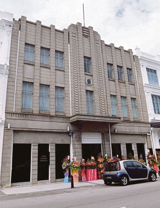 OCBC Building at Beach Street, George Town, Penang